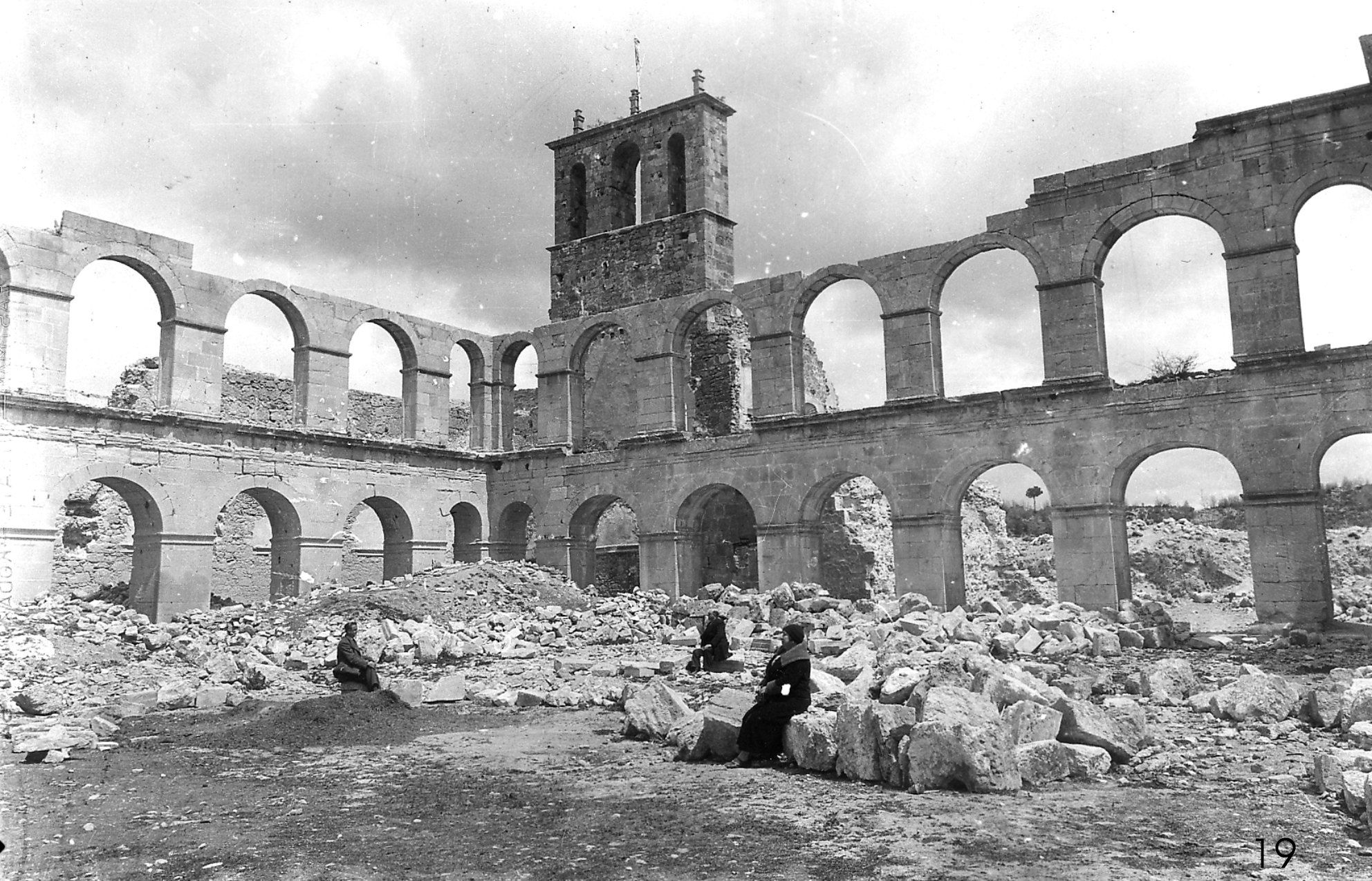 Dismantled cloister of the Monastery of Ovila 1930s